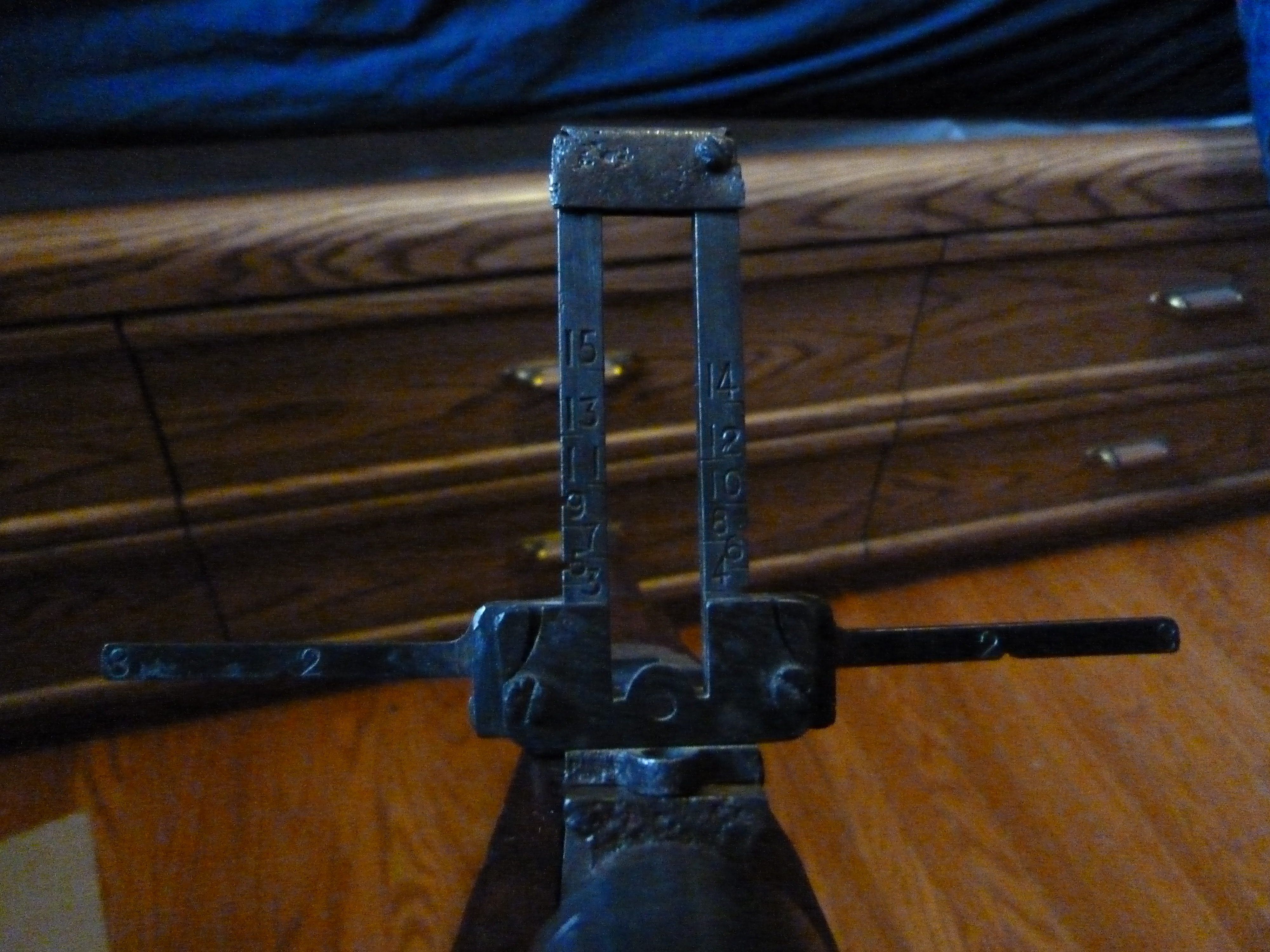 Flip up Anti Aircraft sights on Type 99, in the up position with arms extended.